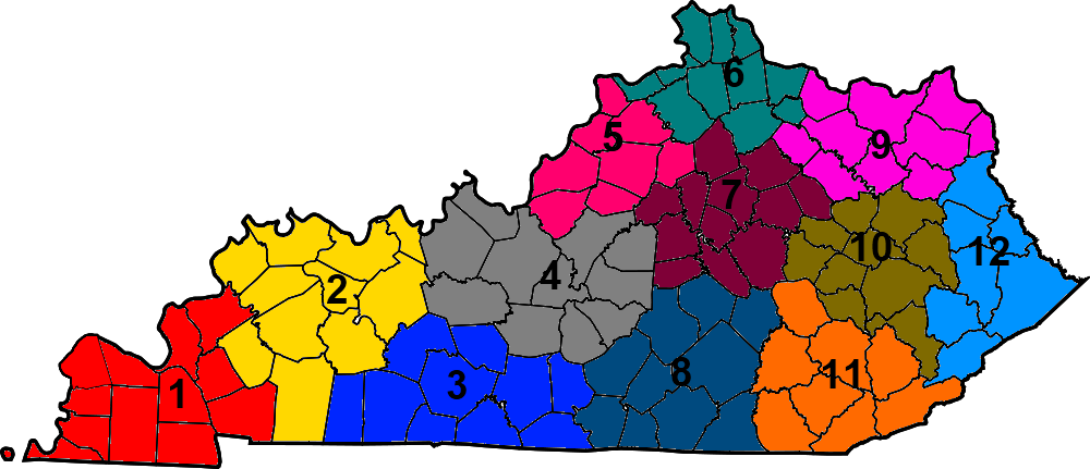 This is a locator map showing the Kentucky Transportation Cabinet districts. The numbers come from here.